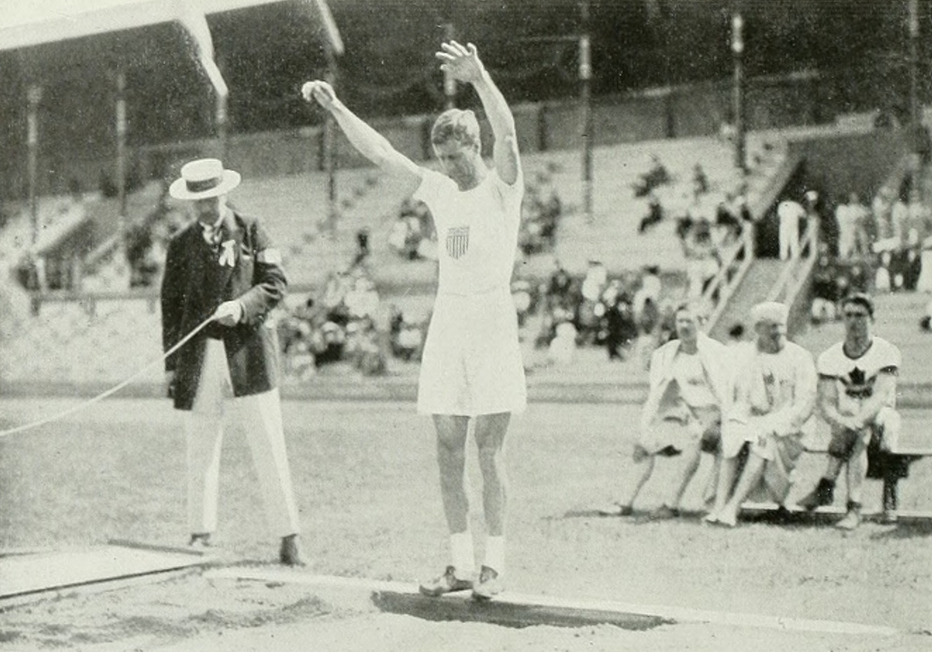 Platt Adams during the standing long jump competition at the 1912 Summer Olympics.